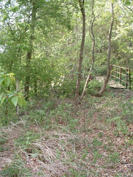 Former railroad bridge of the railway line Laupheim-Schwendi near Bronnen